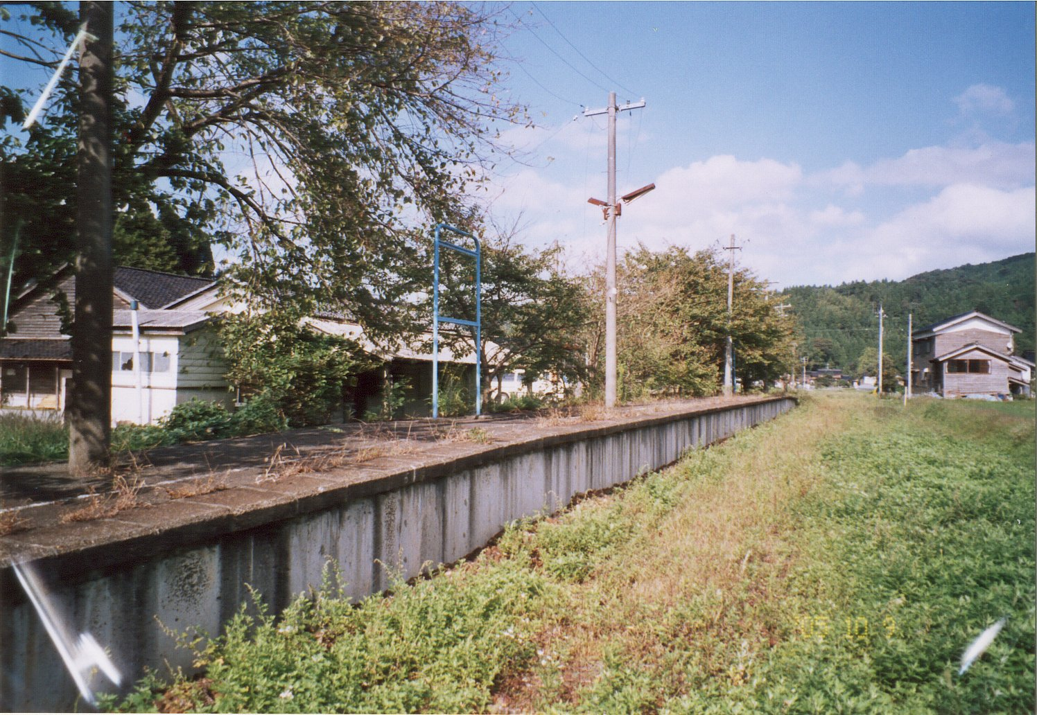 The remains of Noto-ichinose Station, Noto Railway on October 9, 2005.